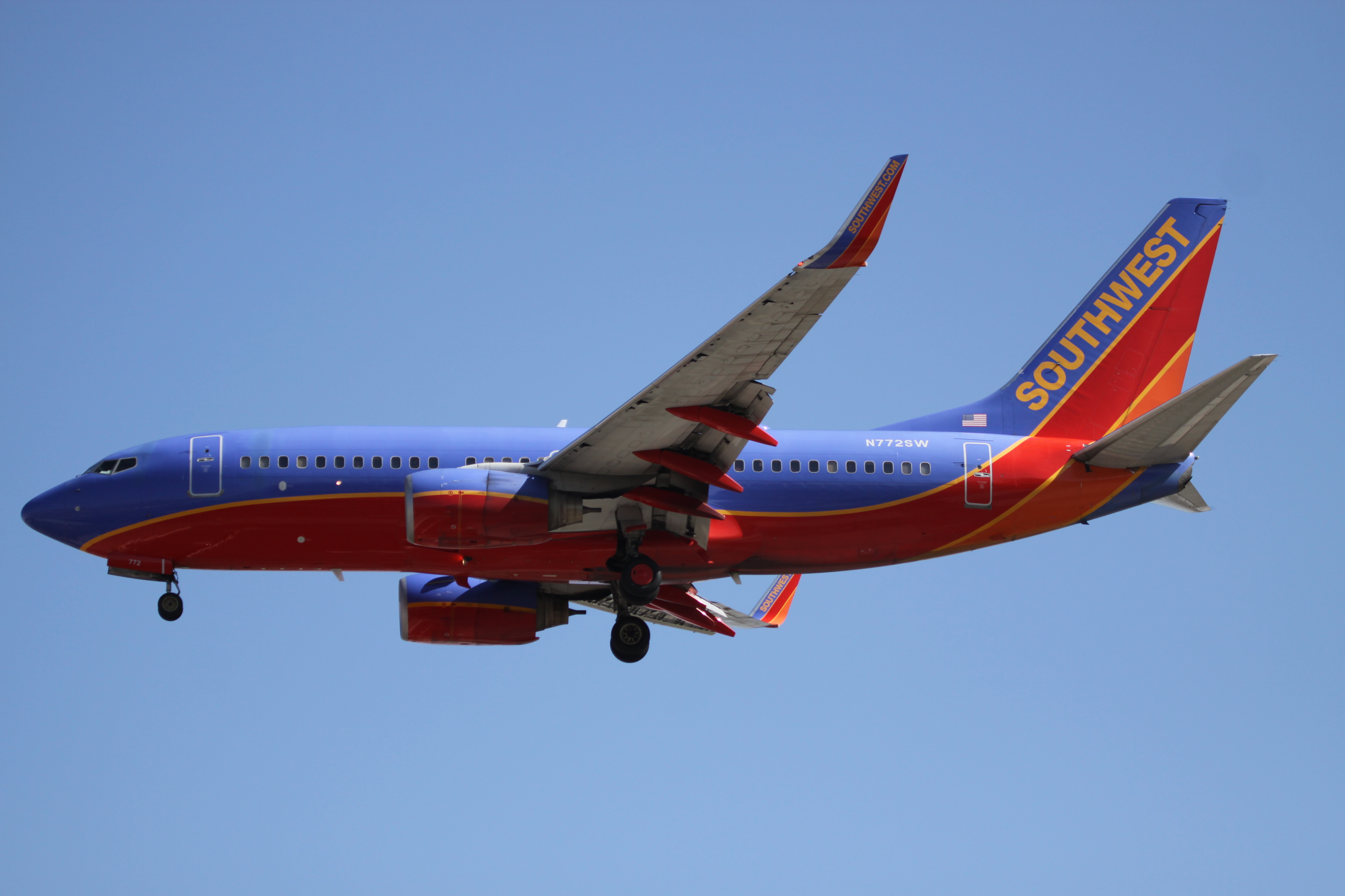 At Las Vegas McCarran International Airport